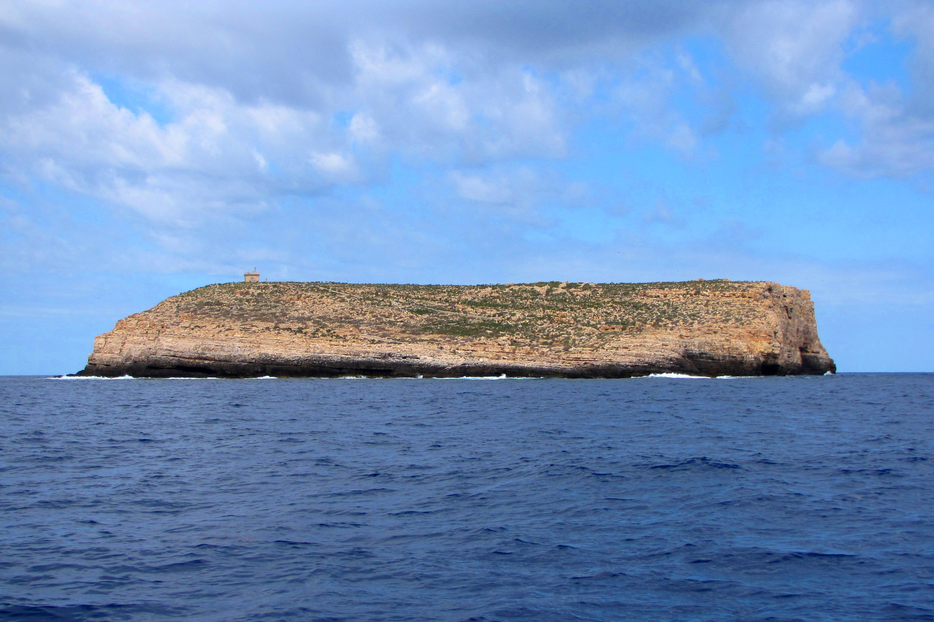 Lampione islet situated 17 km to the west of Lampedusa, photo by Arnold Sciberras